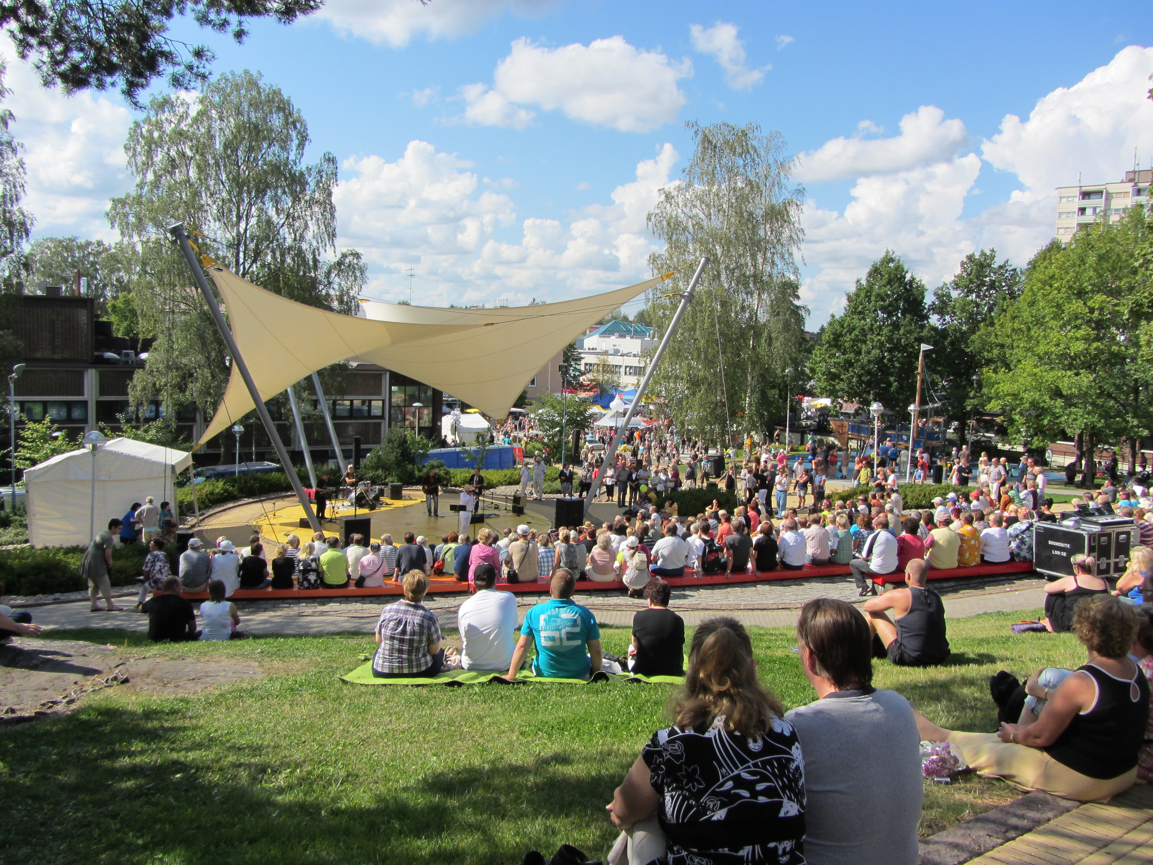 The band Uusi Energia was perfoming on Aurinkomäki Stage during The Garlic Festival 2012.